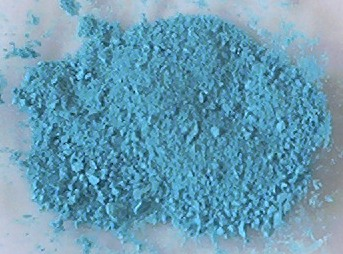 Basic Copper(II)-carbonate